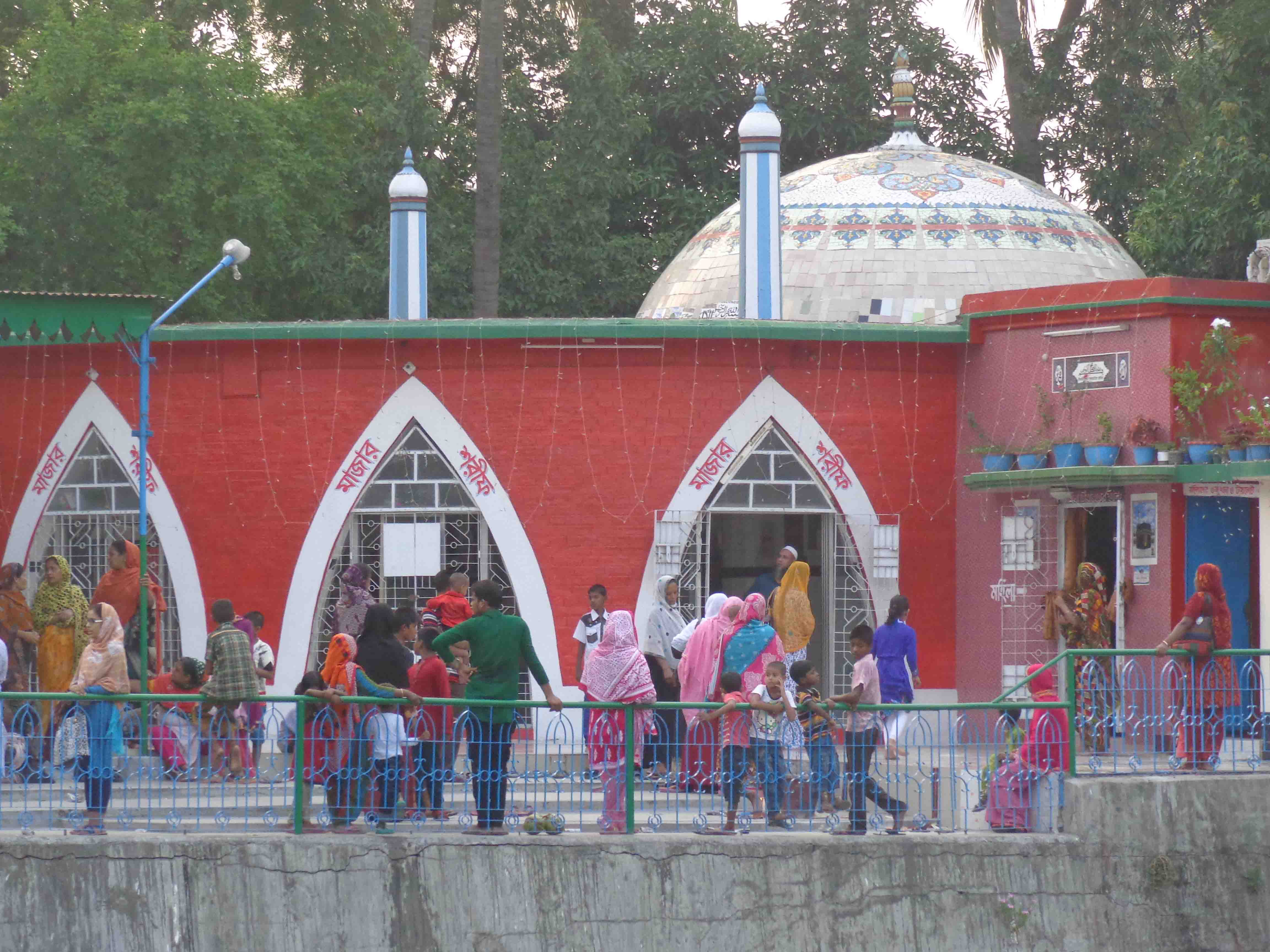 Shah Makhdum Majar , Rajshahi